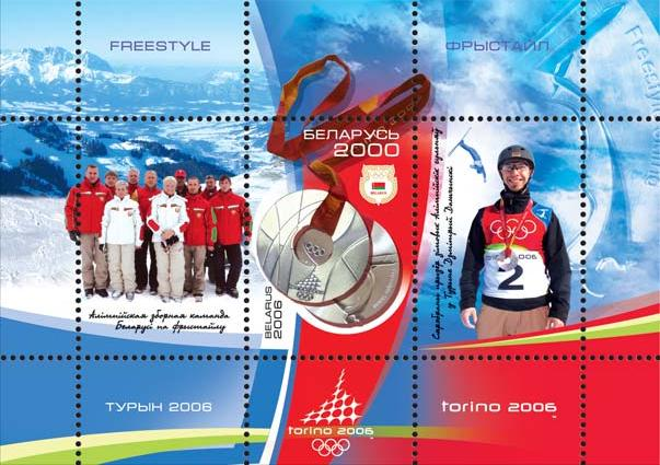 Belarus souvenir sheet no. 52, commemorating "Belarus Sportsmen at the XX Olympic Winter Games in Turin". From left to right: the Belarus Olympic freestyle skiing team, stamp no. 658, featuring the country's sole medal in the 2006 Winter Olympics, the silver in men's freestyle skiing aerials, and Dmitri Dashinski, the silver medal winner.